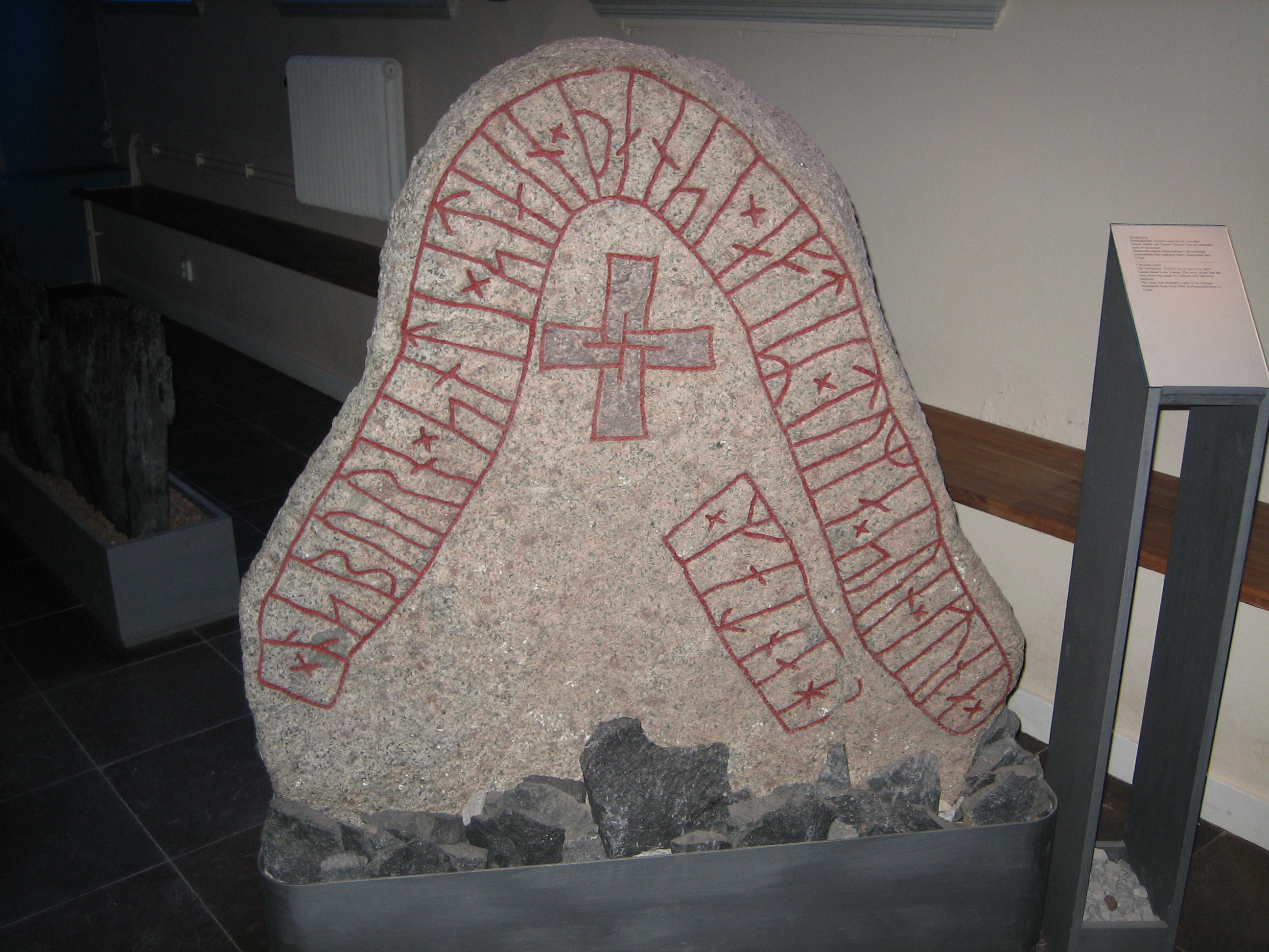 The runestone DR 282 from the Hunnestad monument. Currently on display at Kulturen in Lund, Sweden (september 2008). Photo taken 080903 by the uploader.